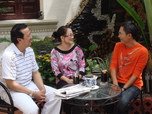 My picture